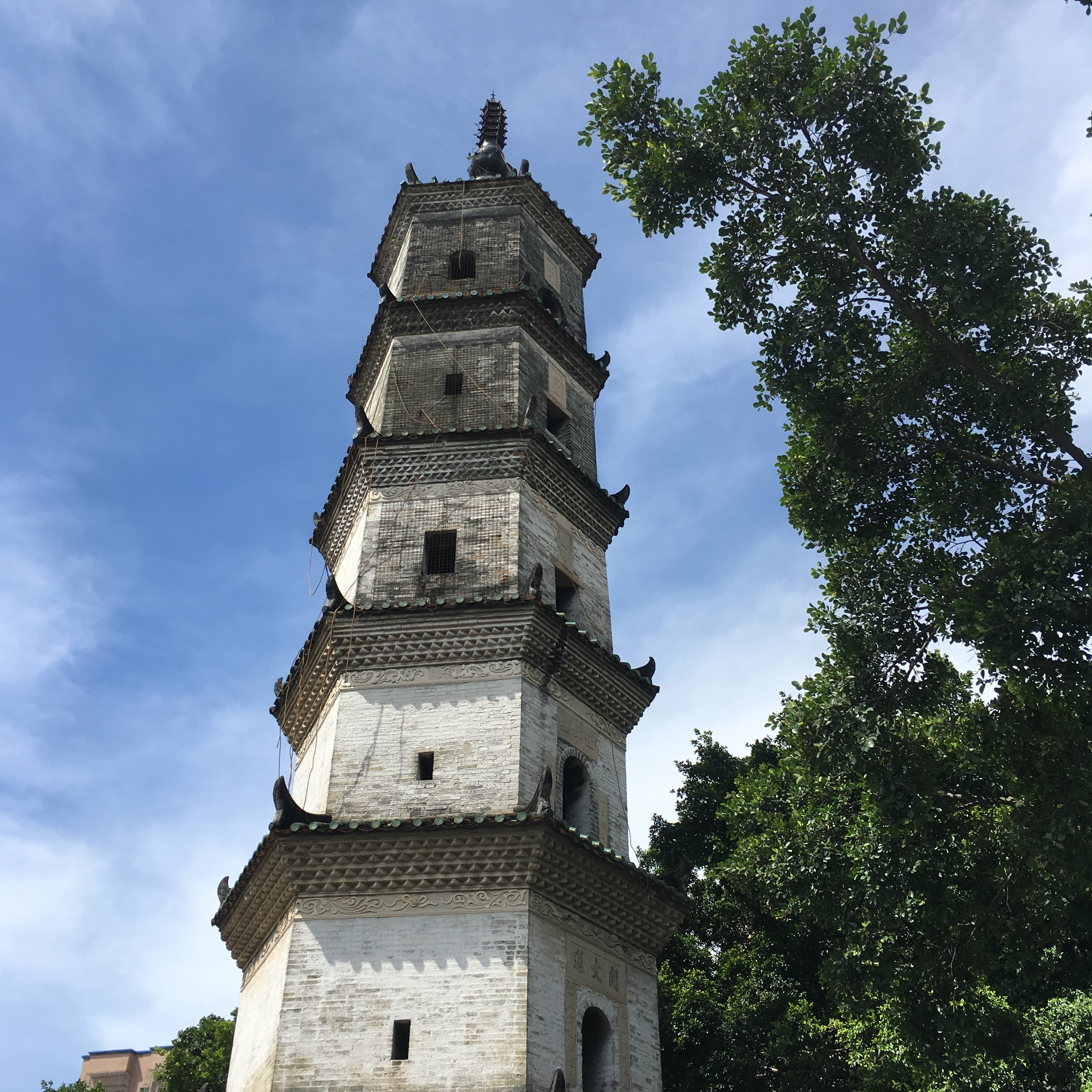 Fuyong, Shenzhen